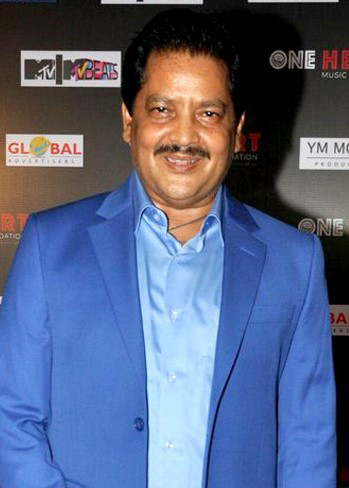 Udit Narayan at the screening of the A. R. Rahman's documentary.